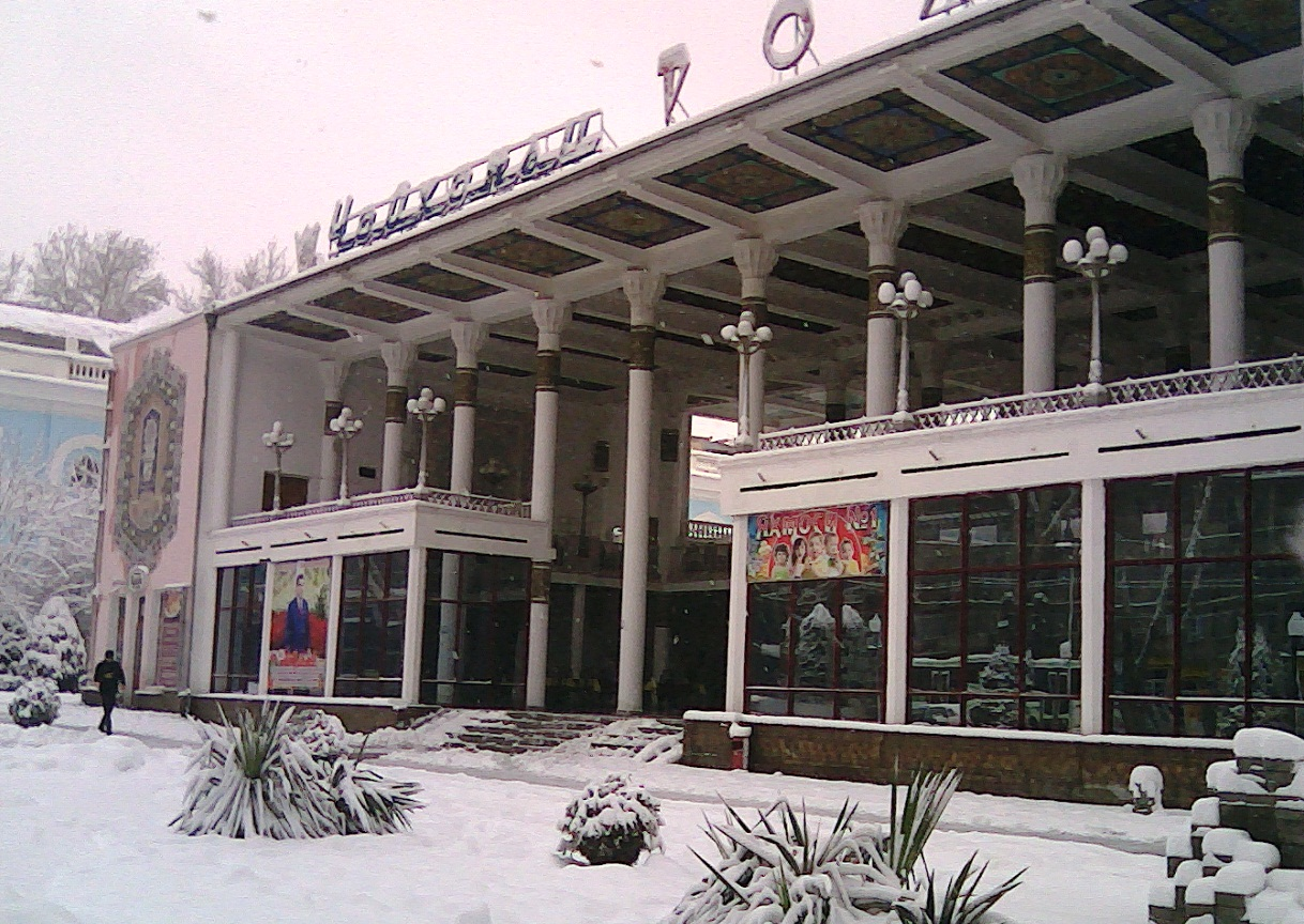 Chaykhona Rokhat, Dushanbe, Tajikistan, 2017-02-04